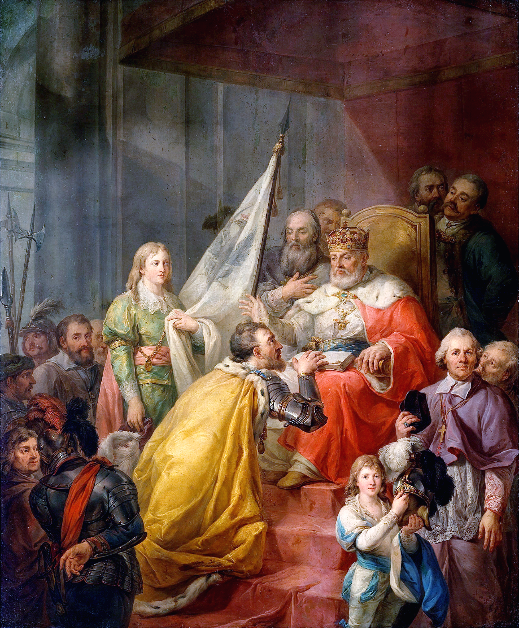 Prussian Homage